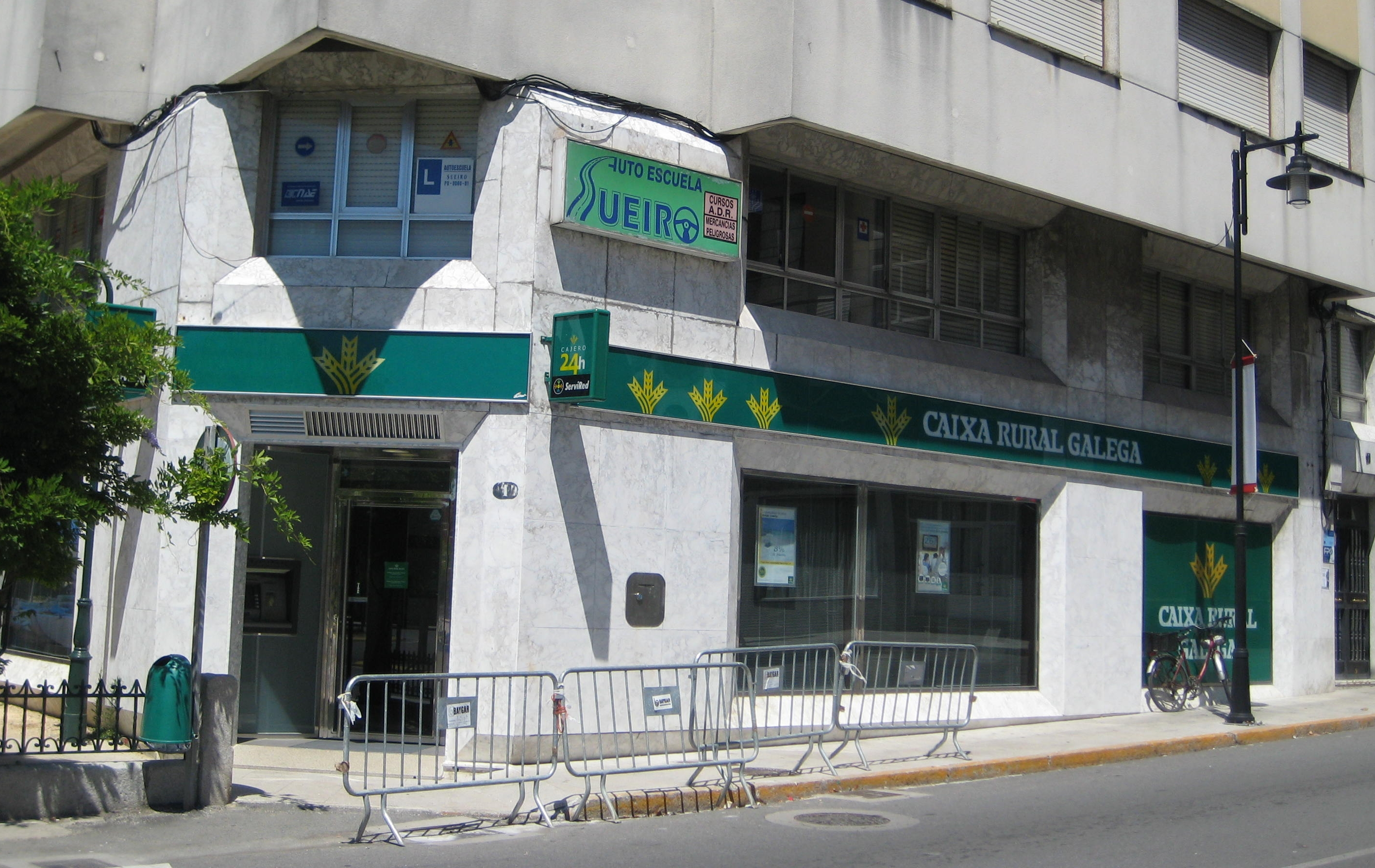 Branch of Caixa Rural Galega credit cooperative in Cambados, Pontevedra, Galicia, Spain.